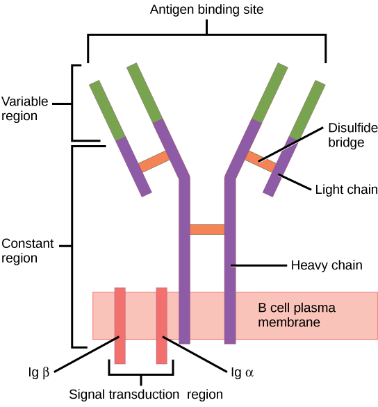 Name: Biology ID: Language: English Summary: Biology is designed for multi-semester biology courses for science majors. It is grounded on an evolutionary basis and includes exciting features that highlight careers in the biological sciences and everyday applications of the concepts at hand. To meet the needs of today’s instructors and students, some content has been strategically condensed while maintaining the overall scope and coverage of traditional texts for this course. Instructors can customize the book, adapting it to the approach that works best in their classroom. Biology also includes an innovative art program that incorporates critical thinking and clicker questions to help students understand—and apply—key concepts. Subjects: Science and Technology Keywords: cells,DNA,gene,expressio,nphylogeny,conservation,biodiversity,biology,chemistry,evolution,proteins,bacteria,fungi,cell,membranes,inheritance,physiology,ecology,genetics,biotechnology,biosphere,photosynthesis,biological,molecules,cell structure,metabolismc,ellular respiration,genes,cell communication,cell reproduction,meiosis,sexual reproduction,genomics,study of life,cell function,animal diversity,animal reproduction,plant nutrition,soilseedless plantsplant physiologyplant reproductionanimal bodycirculatory systemdigestive systemendocrine systemnervous systemrespiratory systemorigin of speciesecosystemsarchaeasensory systemosmotic regulationimmune systemvertebratesviruspopulation ecologymusculoskeletal systembehavioral biologyanimal biologyanimal physiologybiology for majorscollege biologyeukaryotesinvertebratesmacromoleculesplant biologypopulation evolutionprokaryotesprotistsseed plants Print Style: CCAP Biology License: Creative Commons Attribution License (by 4.0) Authors: OpenStax Copyright Holders: Rice University Publishers: OpenStax OpenStax Biology Latest Version: 10.53 First Publication Date: Aug 22, 2012 Latest Revision: May 27, 2016 Last Edited By: OpenStax Biology